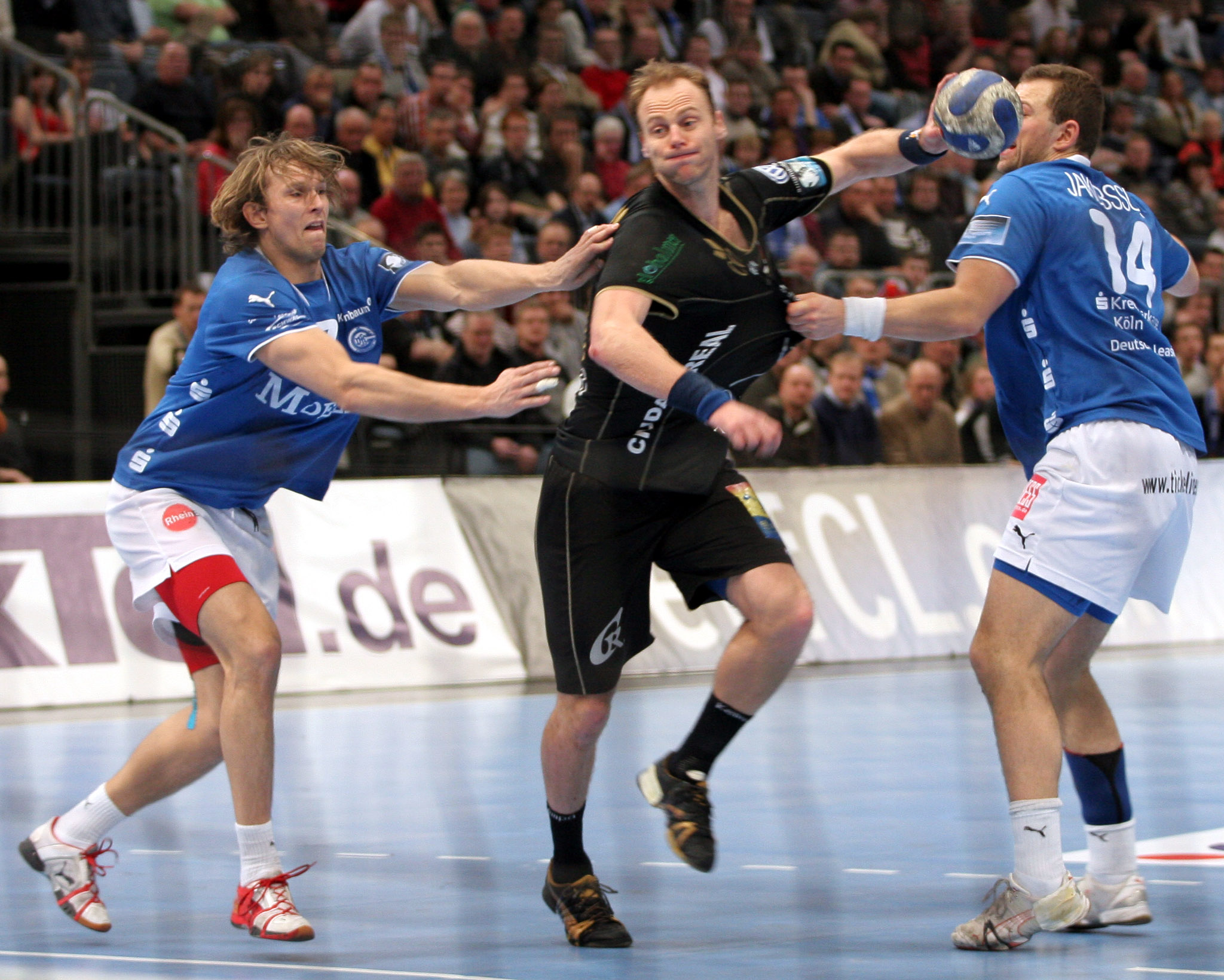 Ólafur Stefánsson, handball player of BM Ciudad Real (Spain), in the Kölnarena during the champions league game VfL Gummersbach vers. BM Ciudad Real on February 20th, 2008